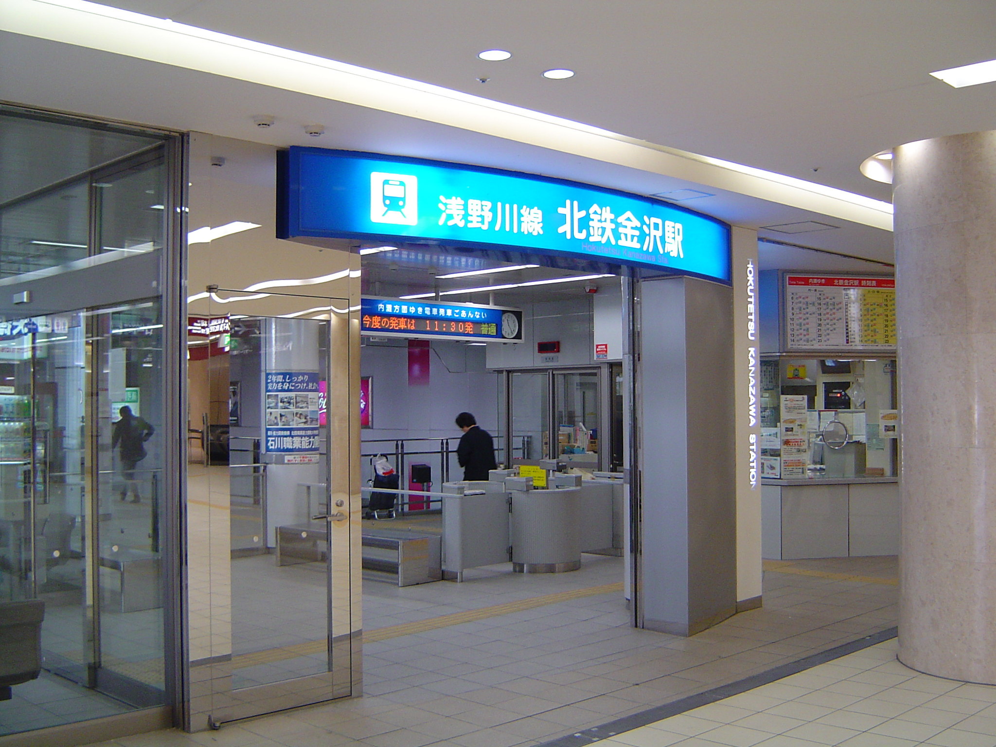 Hokuriku Railroad, Hokutetsu-Kanazawa Station